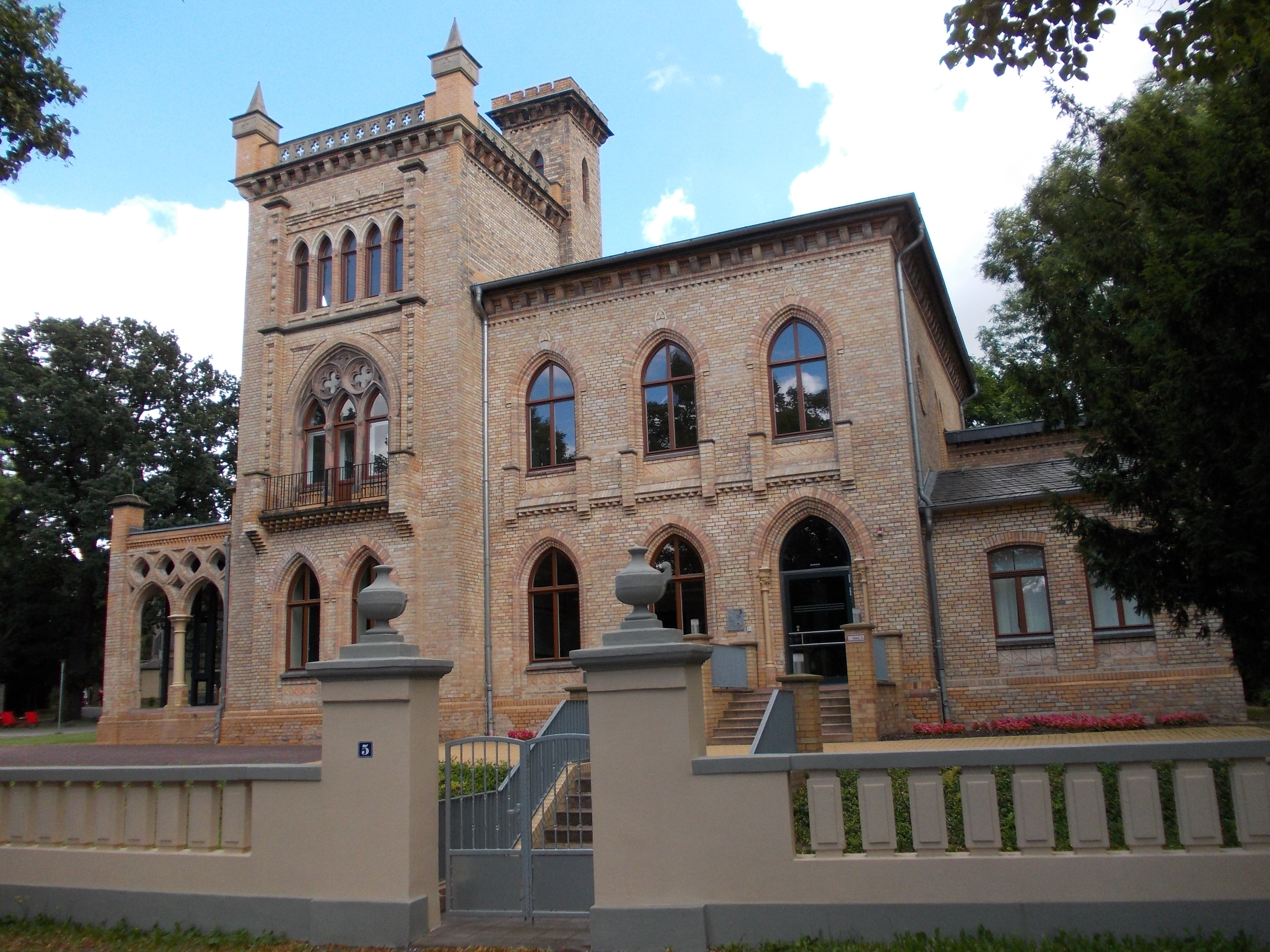 Villa Rabe at Riveufer (No. 5) in Halle (Saale)